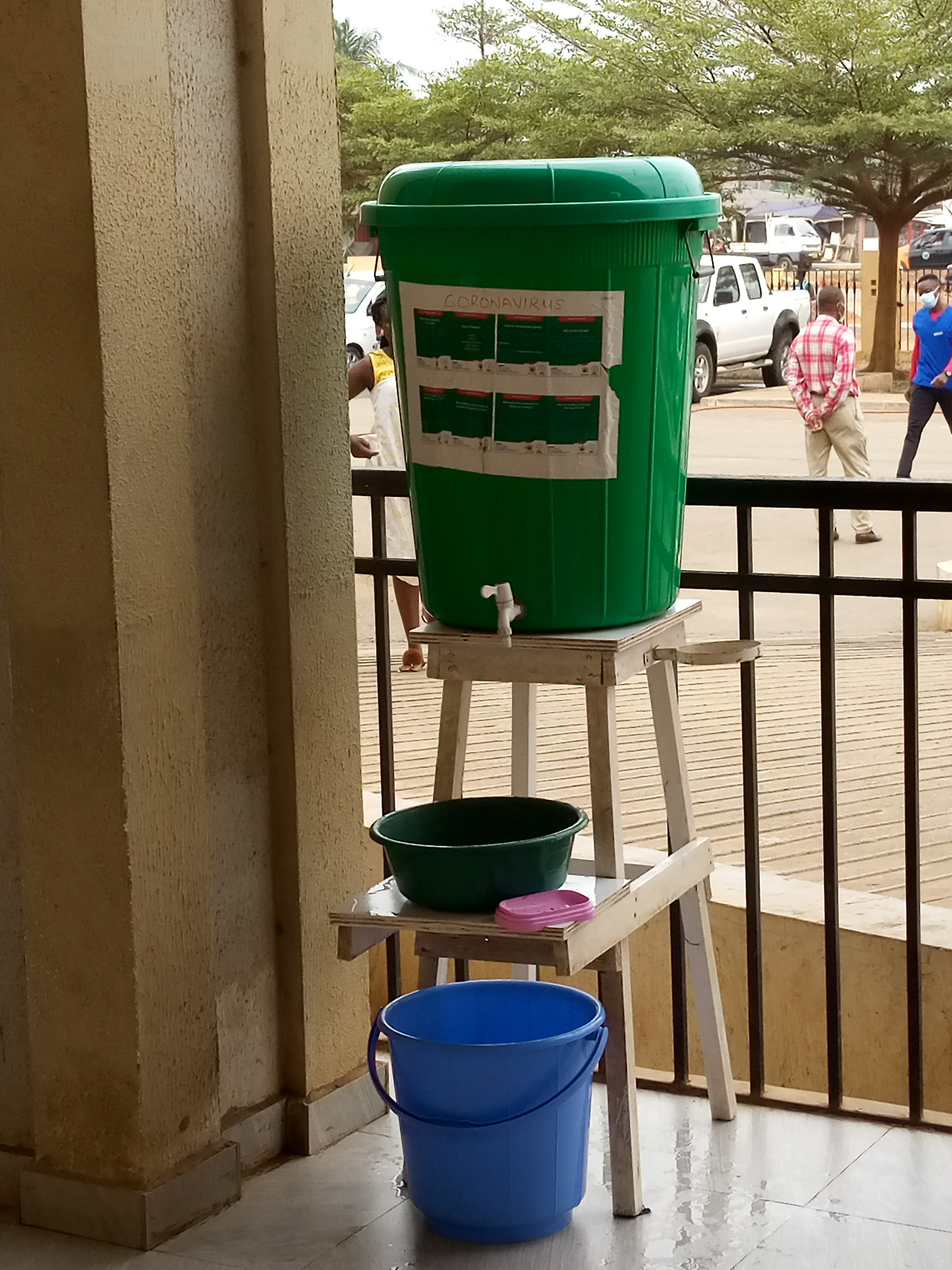 Used for washing hands with soap under running water